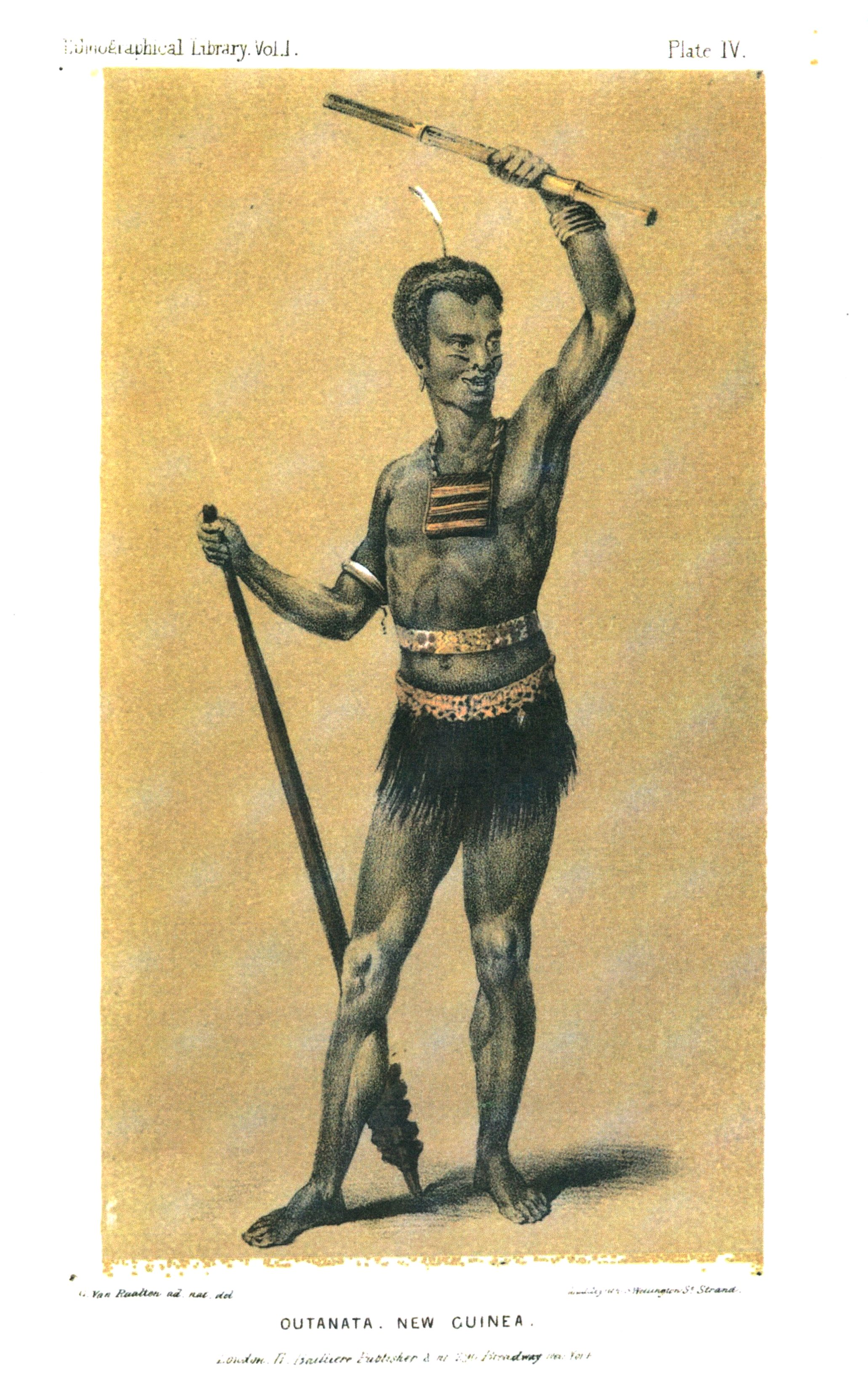 Outanata warrior, New Guinea, drawing van Raalten, from Windsor, 1853